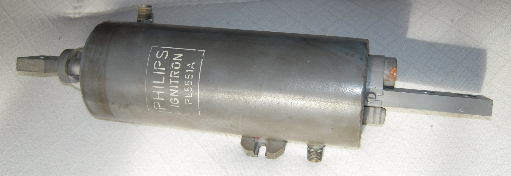 Philips Ignitron tube of type PL5551A.